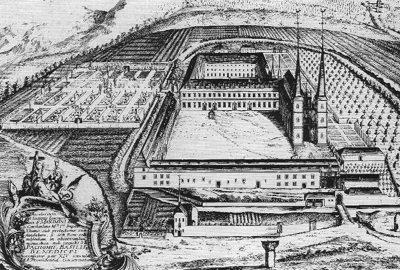 St. Maximin's Abbey in the German town Trier. Engraving from the 17th century?